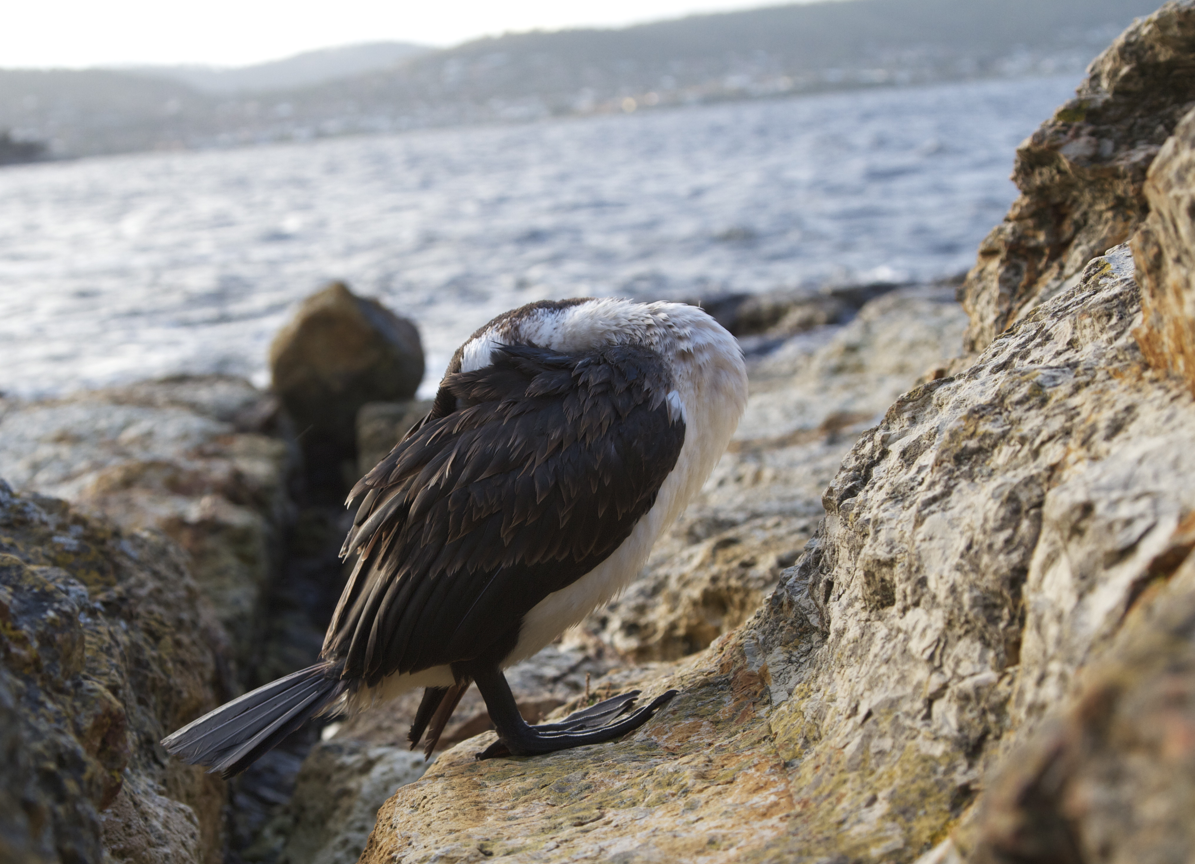 Black-faced Cormorant Phalacrocorax fuscescens sheltering from wind and hail just after dawn. Photograph taken at Bellerive Bluff, Hobart, Tasmania.